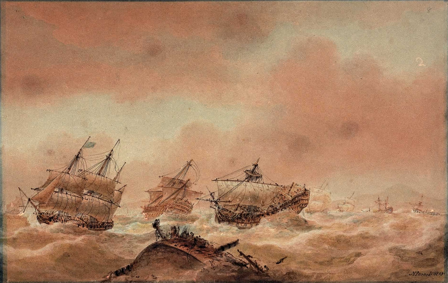 A depiction of the events of 22 October 1805, the day following the Battle of Trafalgar on 21 October 1805, off Cape Trafalgar, Province of Cádiz, Spain. Admiral Lord Nelson's ship H.M.S. Victory is heading towards the shore while H.M.S. Royal Sovereign is being towed by H.M.S. Euryalus.